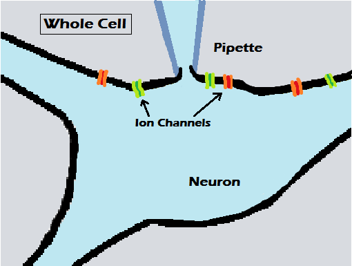 Whole Cell Patch Clamp